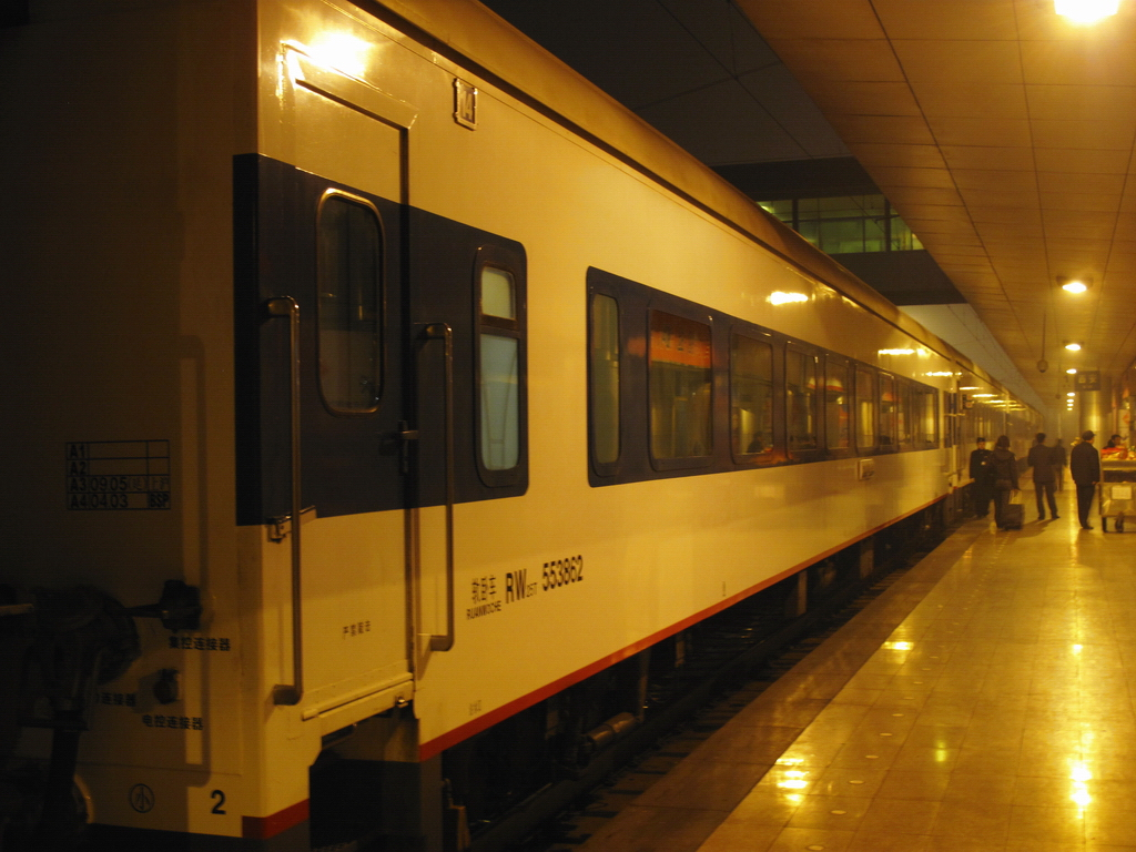 A China Railways RW25T Z20 passenger coach at the railway station in Xi'an, Shaanxi.